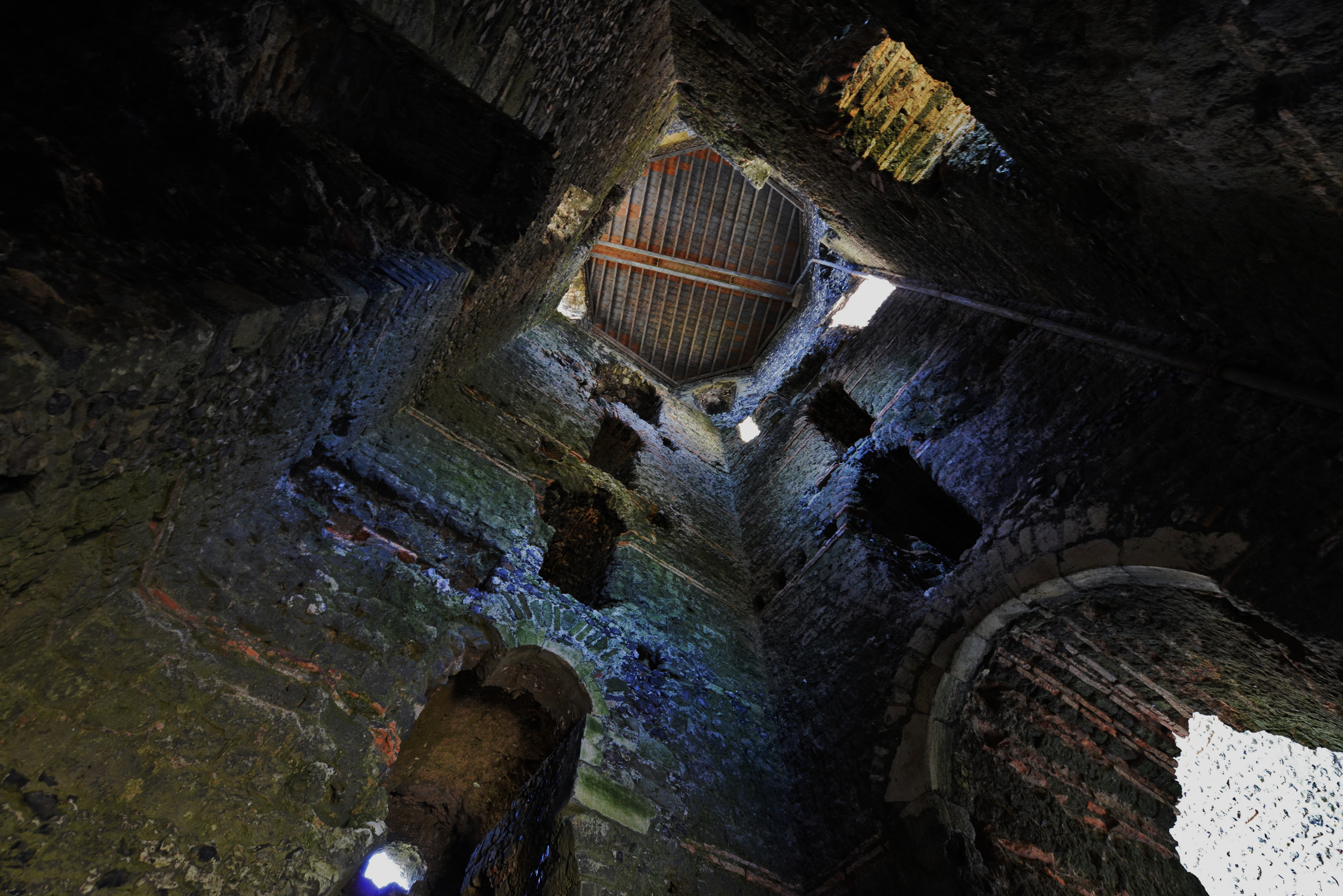 Photo by Michael Garlick